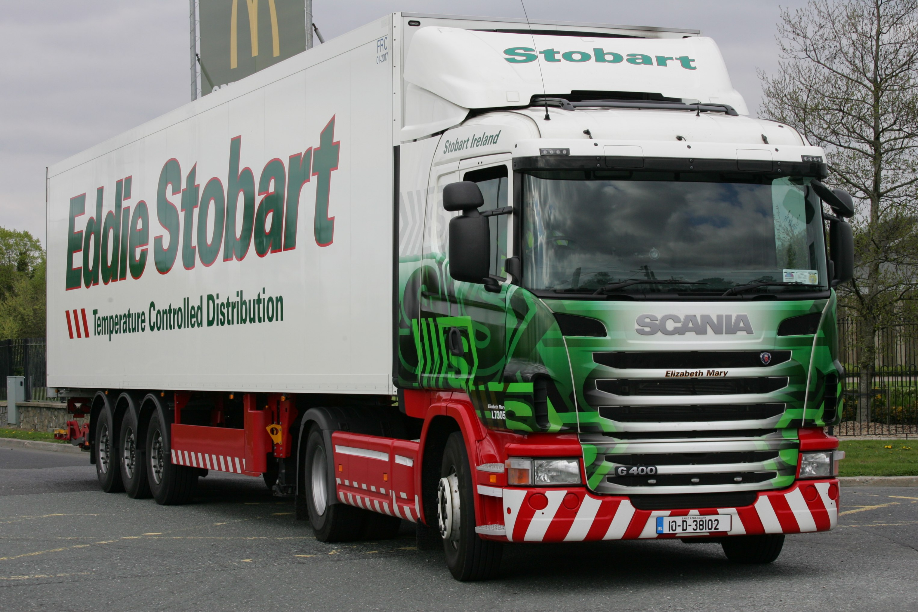 Stobart truck